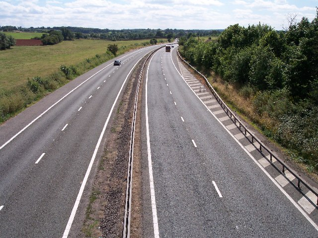 The M50 in England, looking south-west from the Ryton Bridge towards Ross-on-Wye.